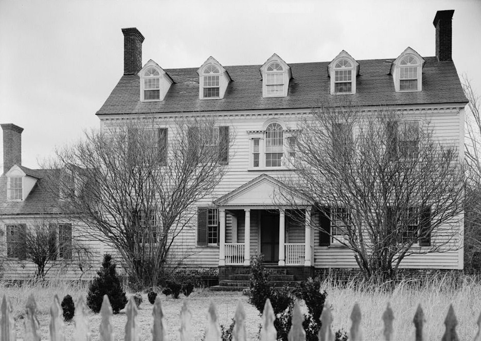 Bowman's Folly, Folly Creek, Accomac vicinity (Accomack County, Virginia) cropped This file comes from the Historic American Buildings Survey (HABS), Historic American Engineering Record (HAER) or Historic American Landscapes Survey (HALS). These are programs of the National Park Service established for the purpose of documenting historic places. Records consist of measured drawings, archival photographs, and written reports. When reusing please credit: Library of Congress, Prints & Photographs Division, VA,1-AC.V,1-2 This tag does not indicate the copyright status of the attached work. A normal copyright tag is still required. See Commons:Licensing for more information. This work is in the public domain in the United States because it is a work prepared by an officer or employee of the United States Government as part of that person’s official duties under the terms of Title 17, Chapter 1, Section 105 of the US Code. See Copyright. Note: This only applies to original works of the Federal Government and not to the work of any individual U.S. state, territory, commonwealth, county, municipality, or any other subdivision. This template also does not apply to postage stamp designs published by the United States Postal Service since 1978. (See § 313.6(C)(1) of Compendium of U.S. Copyright Office Practices). It also does not apply to certain US coins; see The US Mint Terms of Use. This file has been identified as being free of known restrictions under copyright law, including all related and neighboring rights.